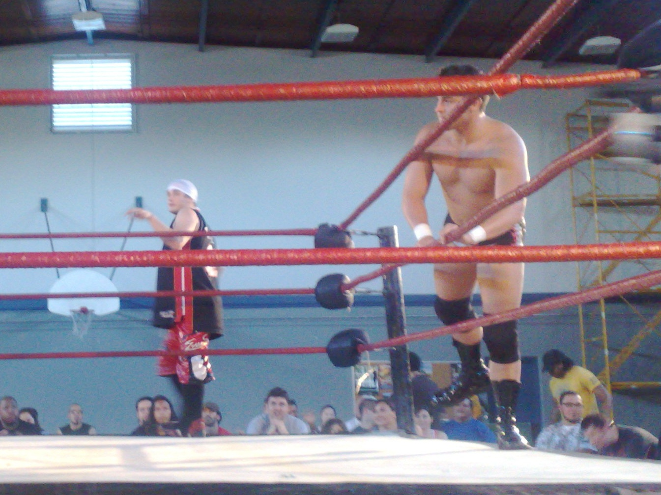 Professional wrestlers Jack Evans (left) and Roderick Strong (right) entering the ring prior to a match at Pro Wrestling Guerrilla's DDT4 Night 2 show in May 2008.